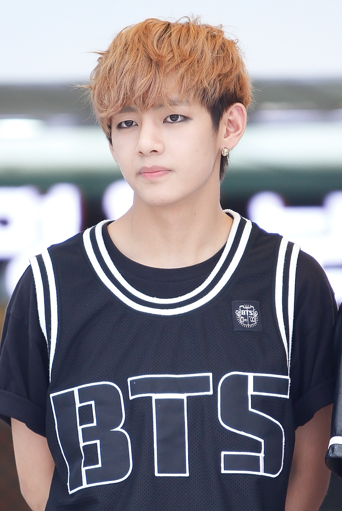 Kim Tae-hyung at an fansign in Busan on July 27, 2013.